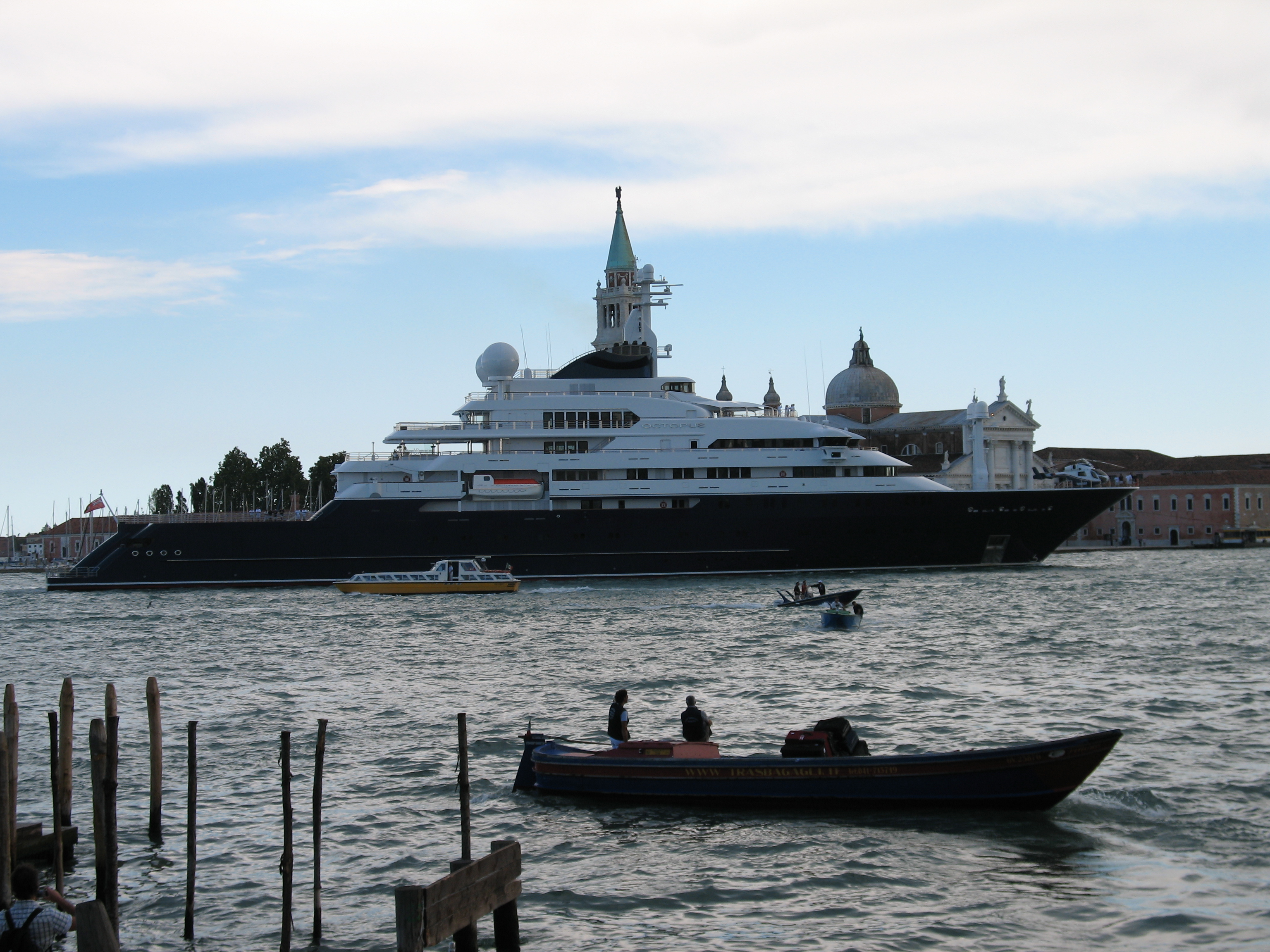 Paul Allen's Megayacht Octopus towed into Venice port in front of San Marco IMO number: 1007213 Callsign: ZCIS Guests: 26 Crew: 57 Top: 20.0 Knots Cruise: 17.0 Knots Gross Tonnage: 9,932